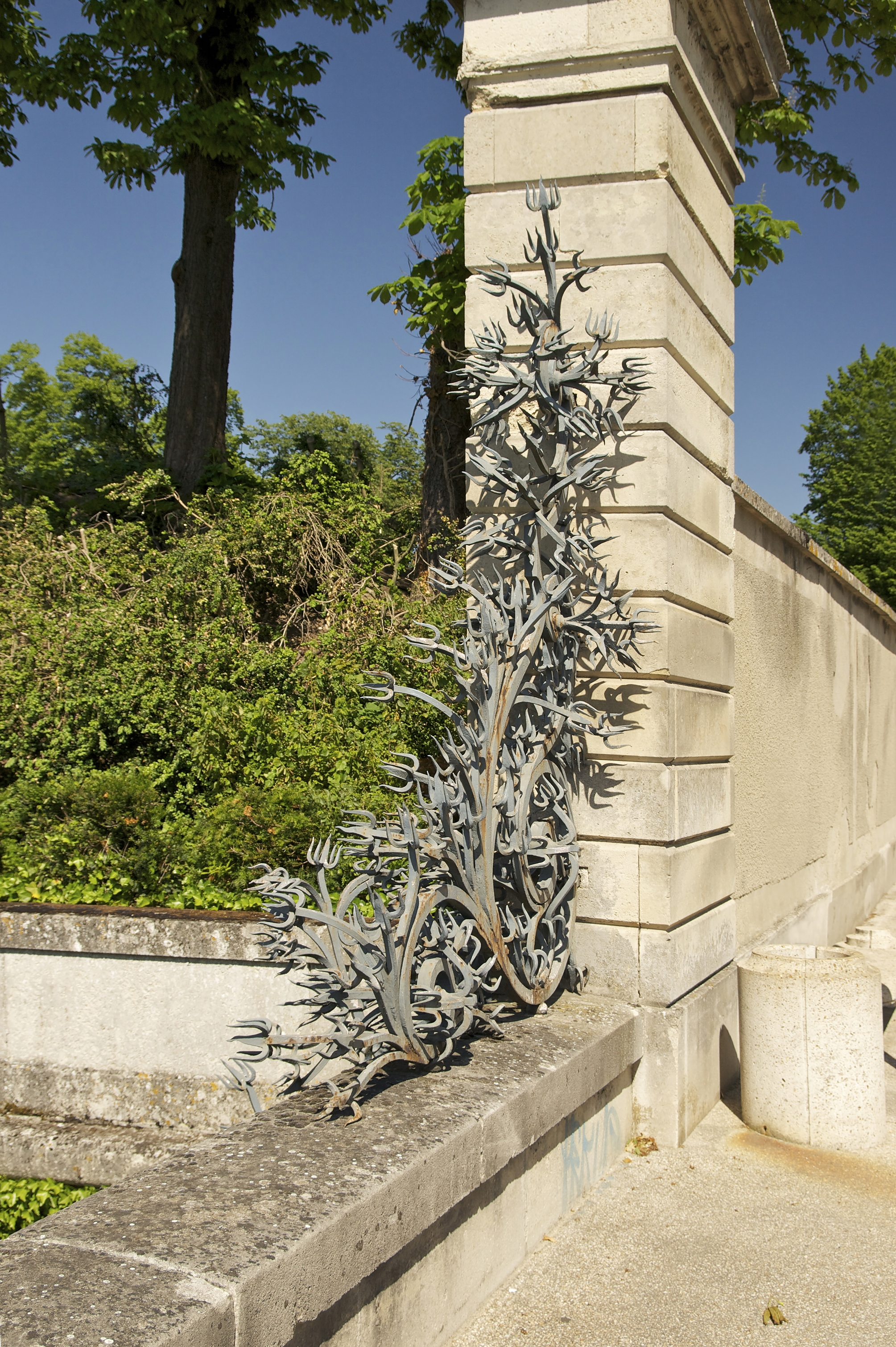 Wrought iron anti-intrusion structure, Château de Champs-sur-Marne, Seine-et-Marne, France.